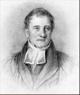 Henry Duncan, Father of the Savings Banks (b.1774-d.1846)